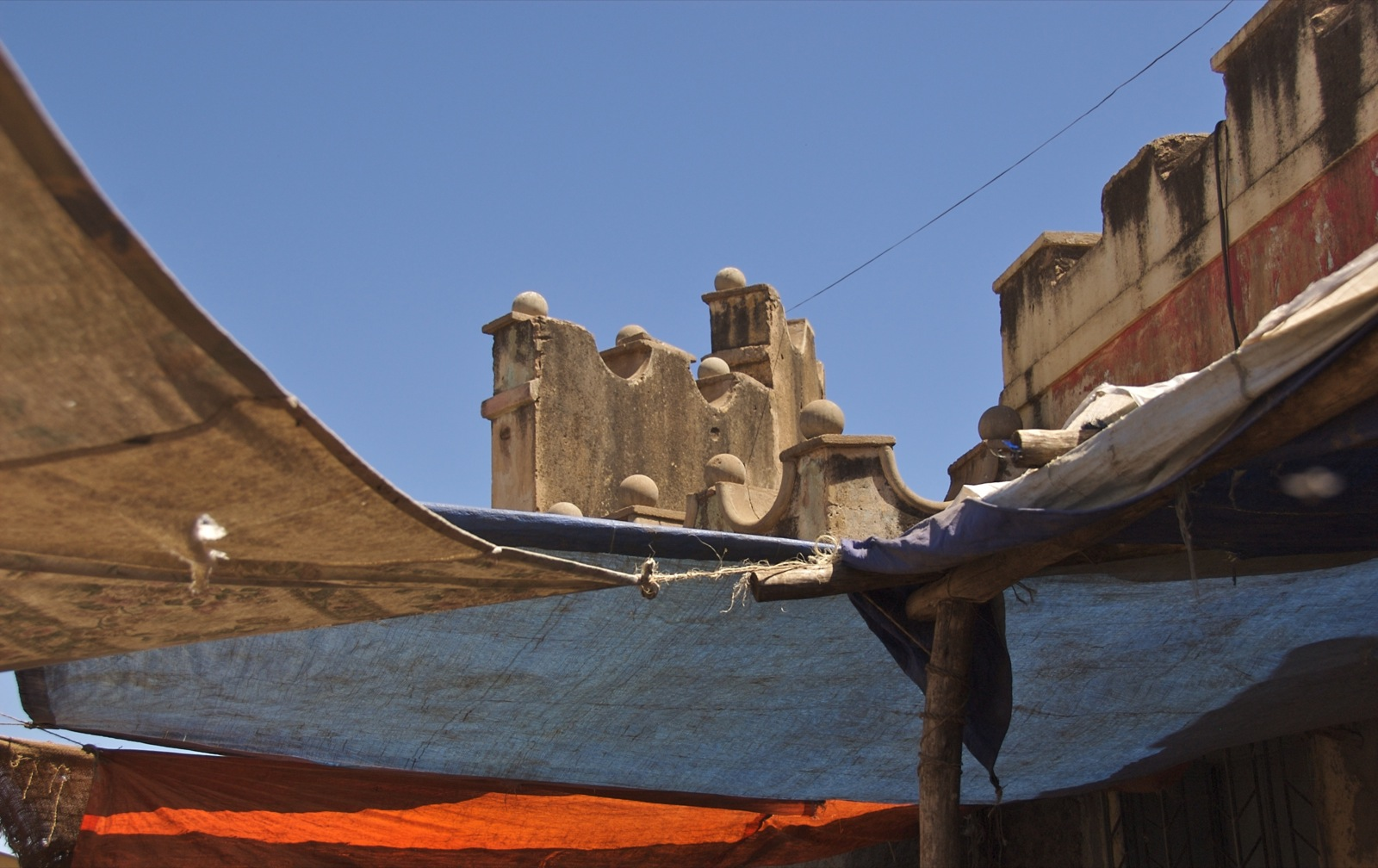 Market, Dire Dawa, Ethiopia